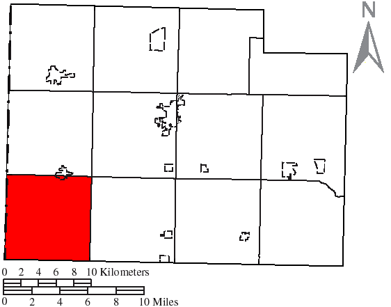 Made by the US Census and modified by myself